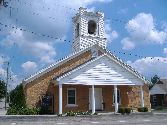 West Union Presbyterian Church located at 108 South Second Street in West Union, Ohio.